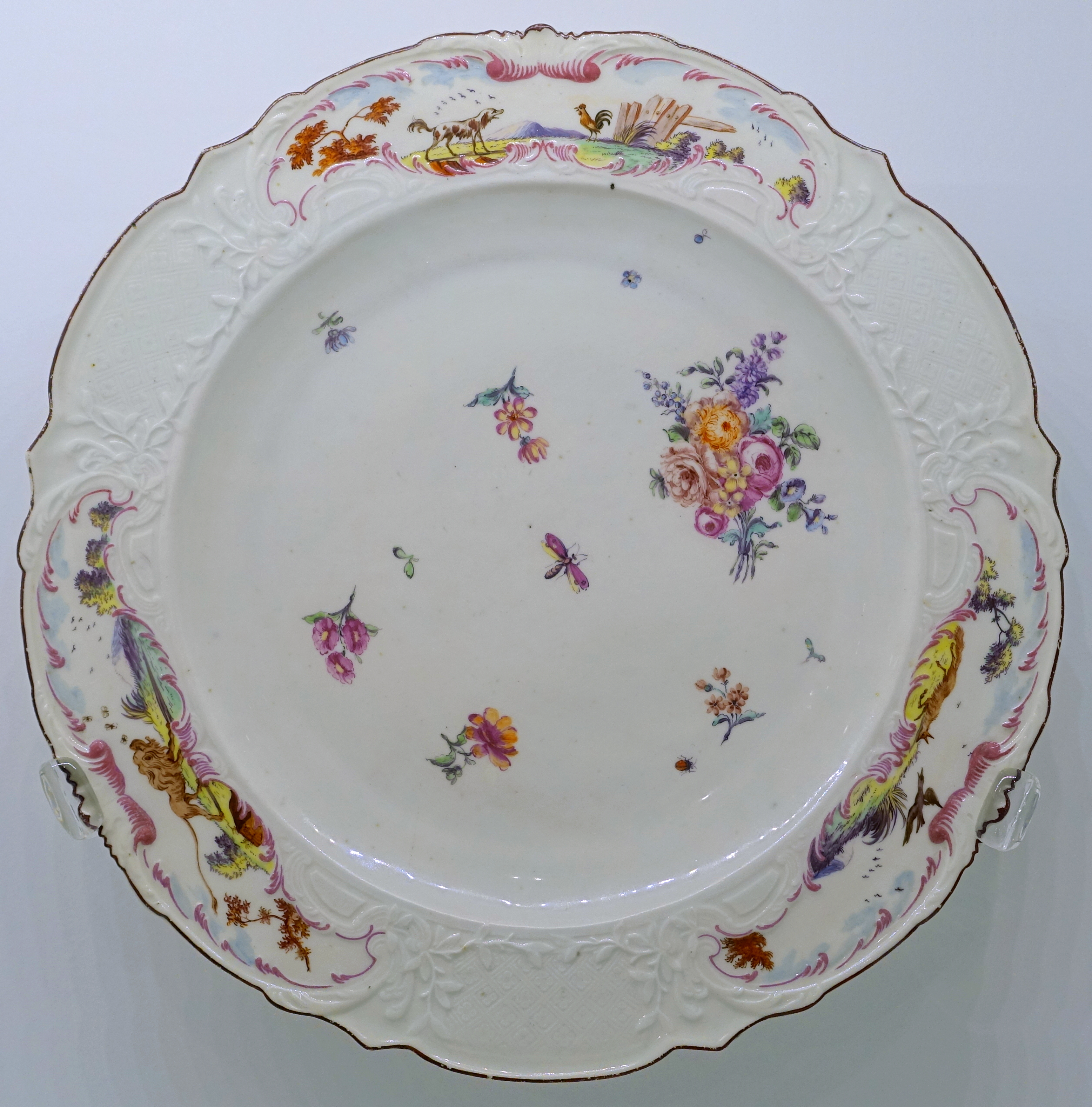 Exhibit in the Montreal Museum of Fine Arts - Montreal, Quebec, Canada.